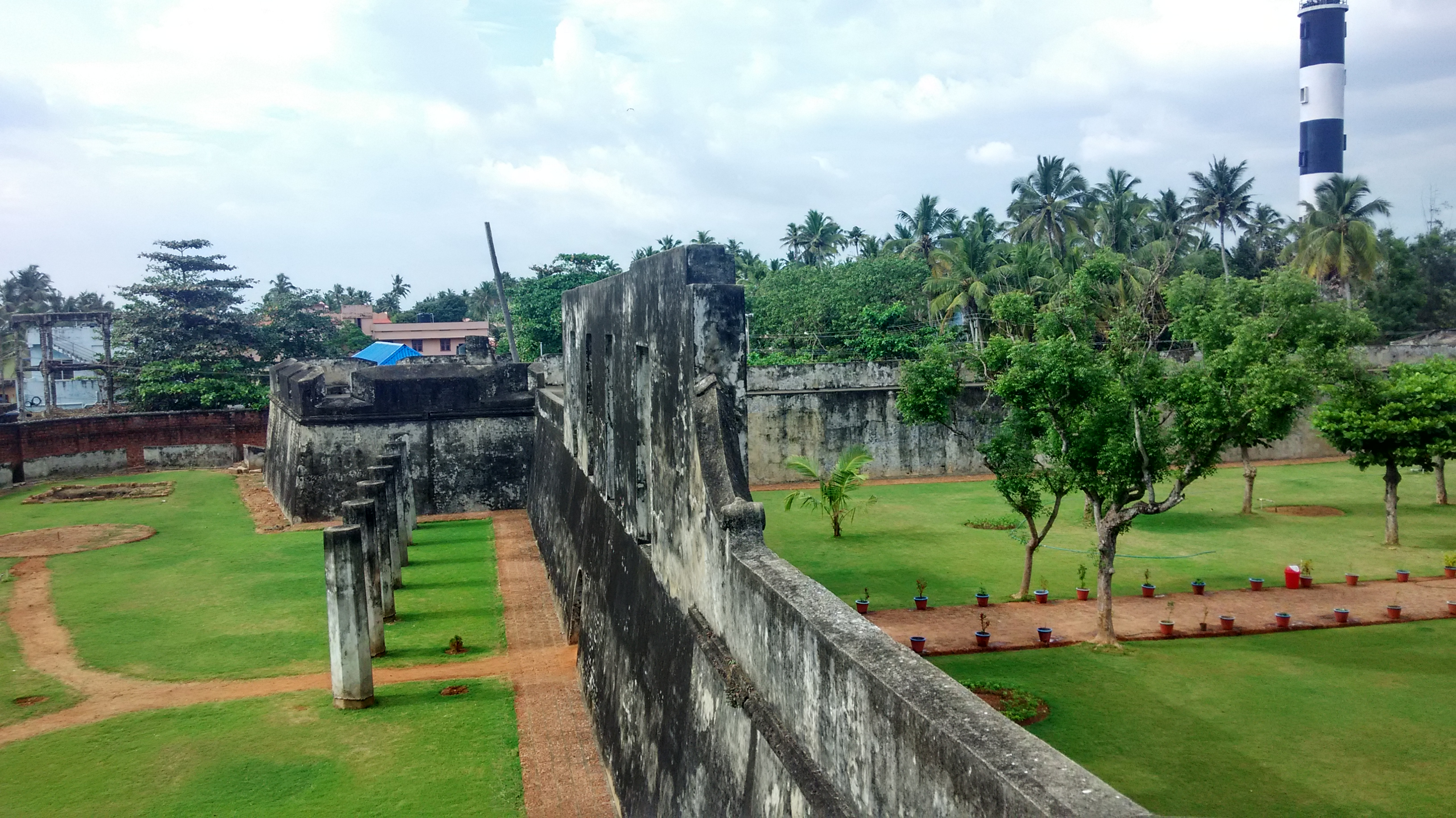 Anchuthengu Fort (also known as Anjengo Fort) was established by the British East India Company (EIC) in 1696 after the Queen of Attingal gave it permission in 1694 to do so. Located near the town of Anchuthengu, the fort served as the first signalling station for ships arriving from England.